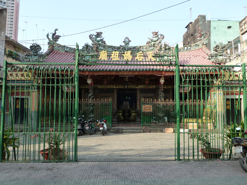 Tempel in Chinatown of Ho Chi Minh City, Vietnam